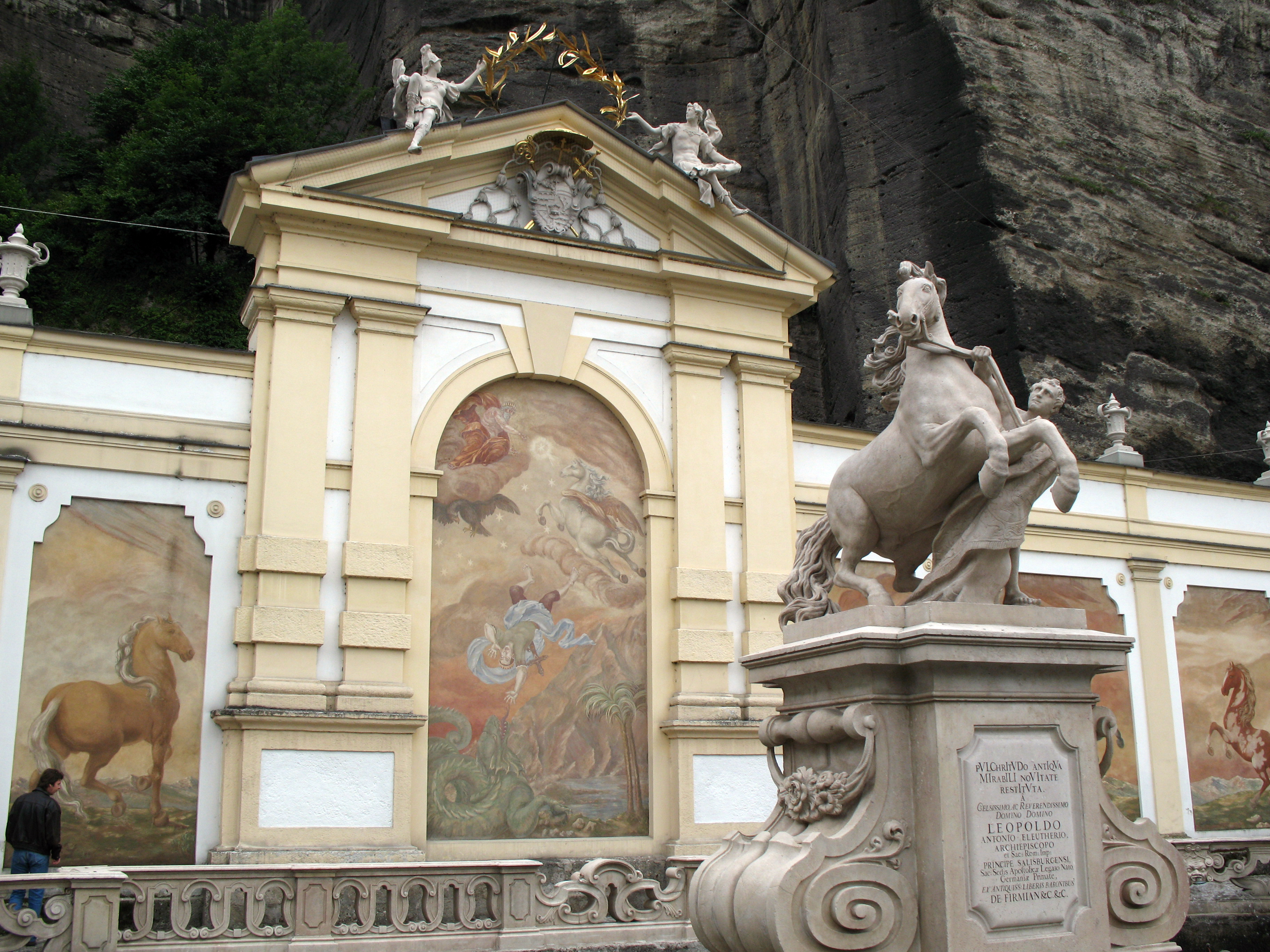 Marstall Horse Bath, Salzburg, Austria